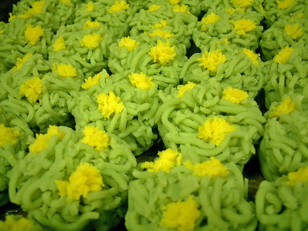 It is made from the red bean (Azuki bean). It's gently sweet.Nano Hana (Japanese traditional sweets) 1